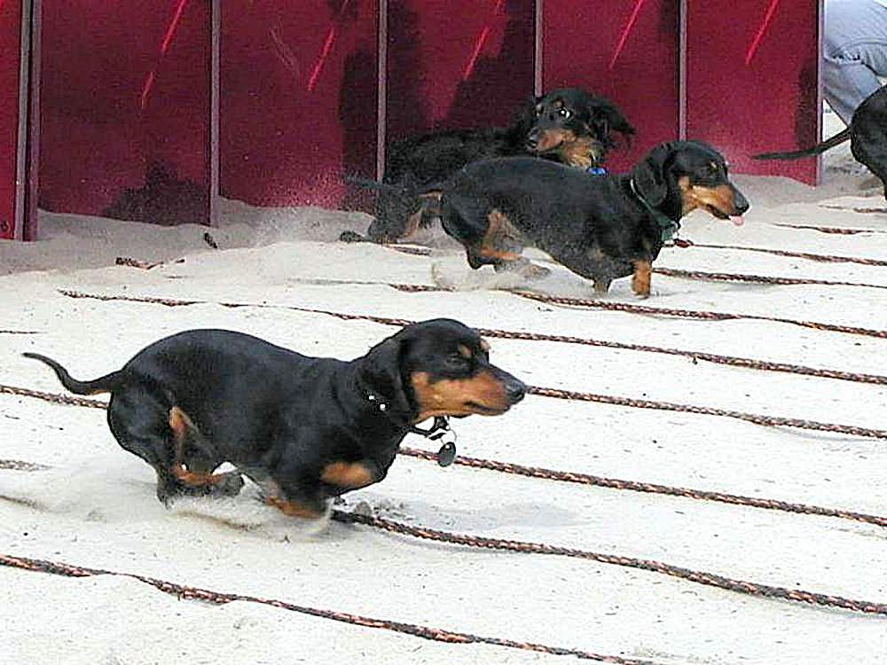 Image title: Wiener dogs races Image from Public domain images website